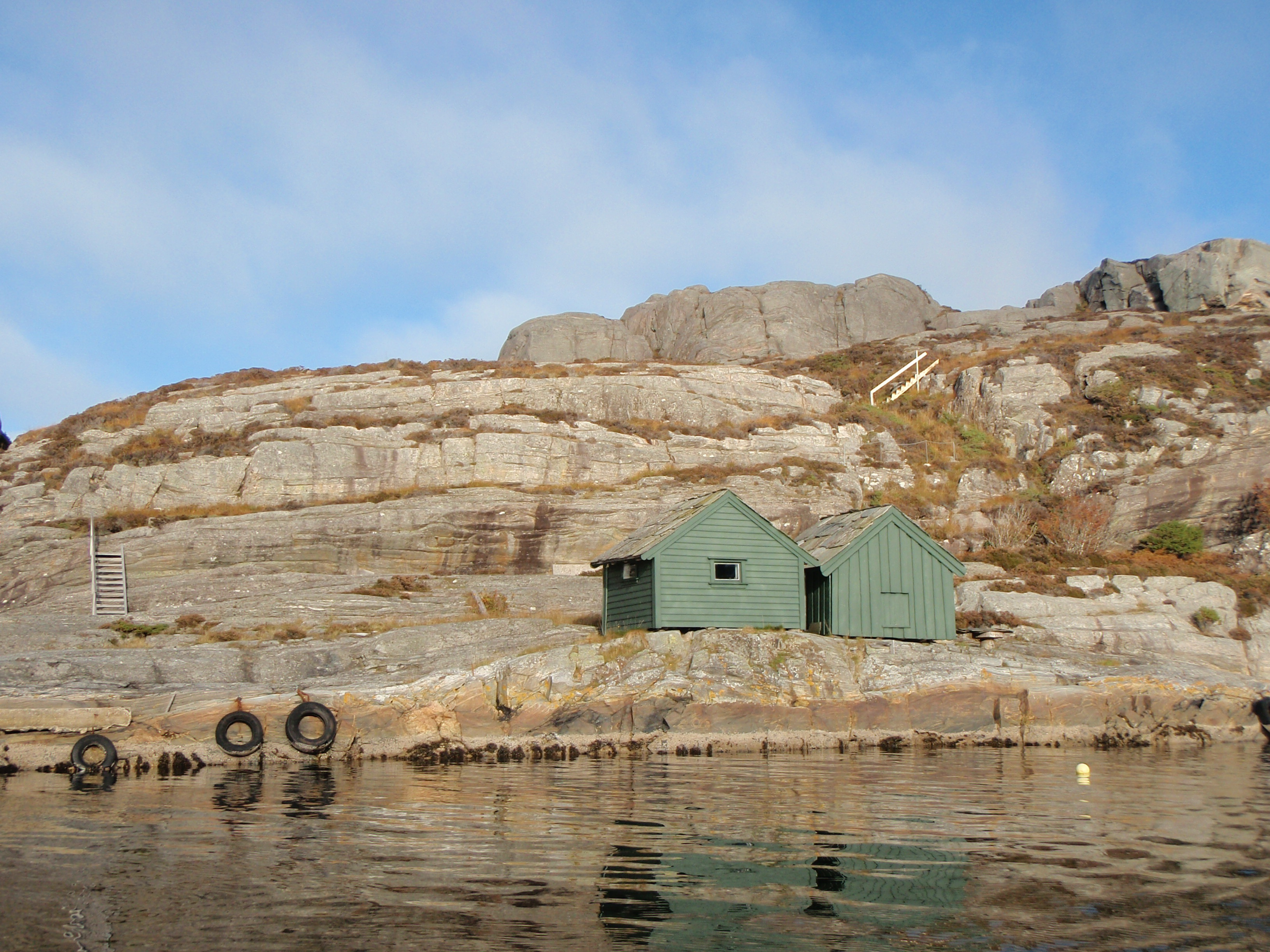 Selstøbuaene were the only buildings left by the Germans in 1942.